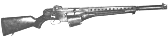 AAI SPIW rifle prototype.